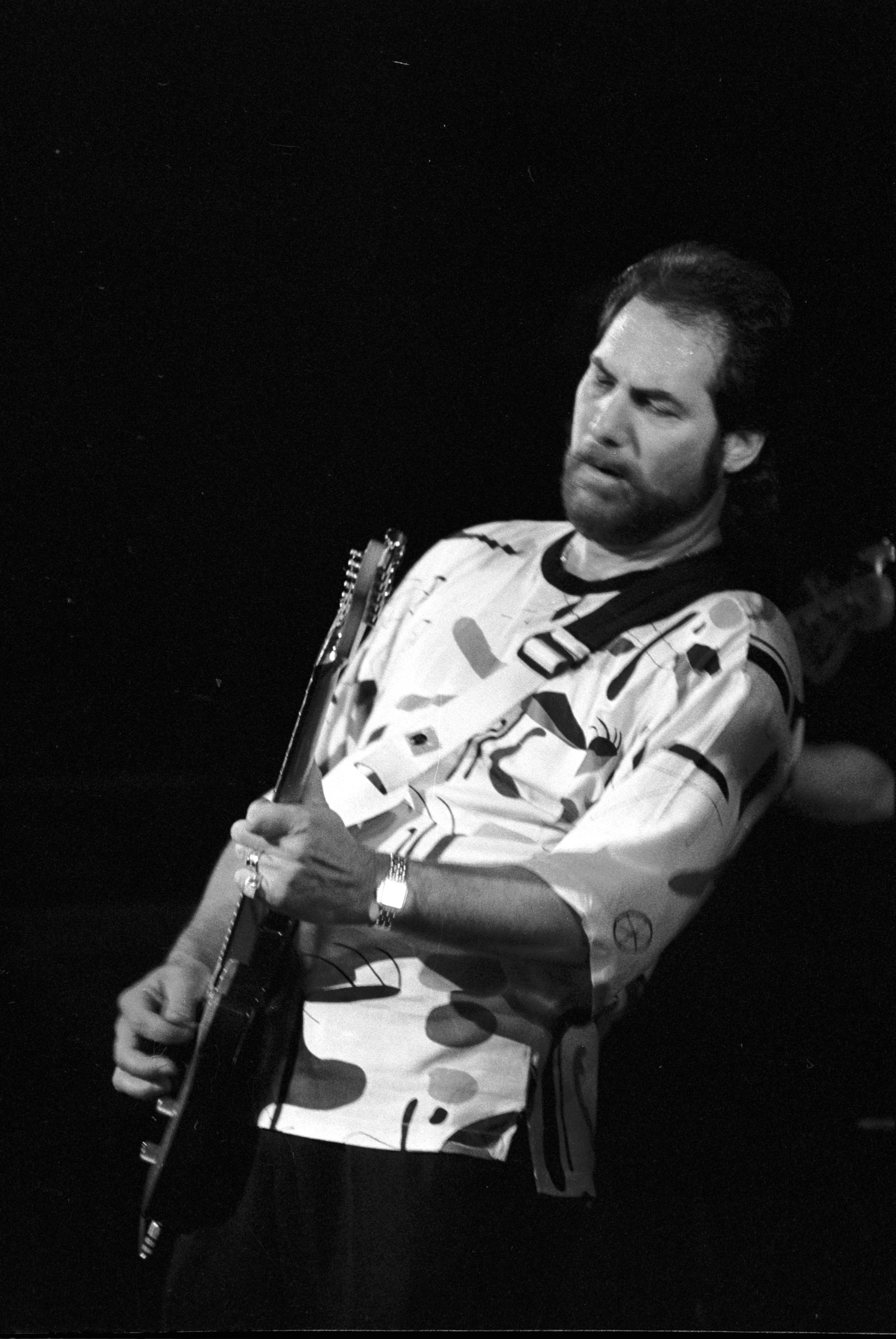 American guitarist Steve Cropper in concert in Deauville (Normandy, France) in 1990.